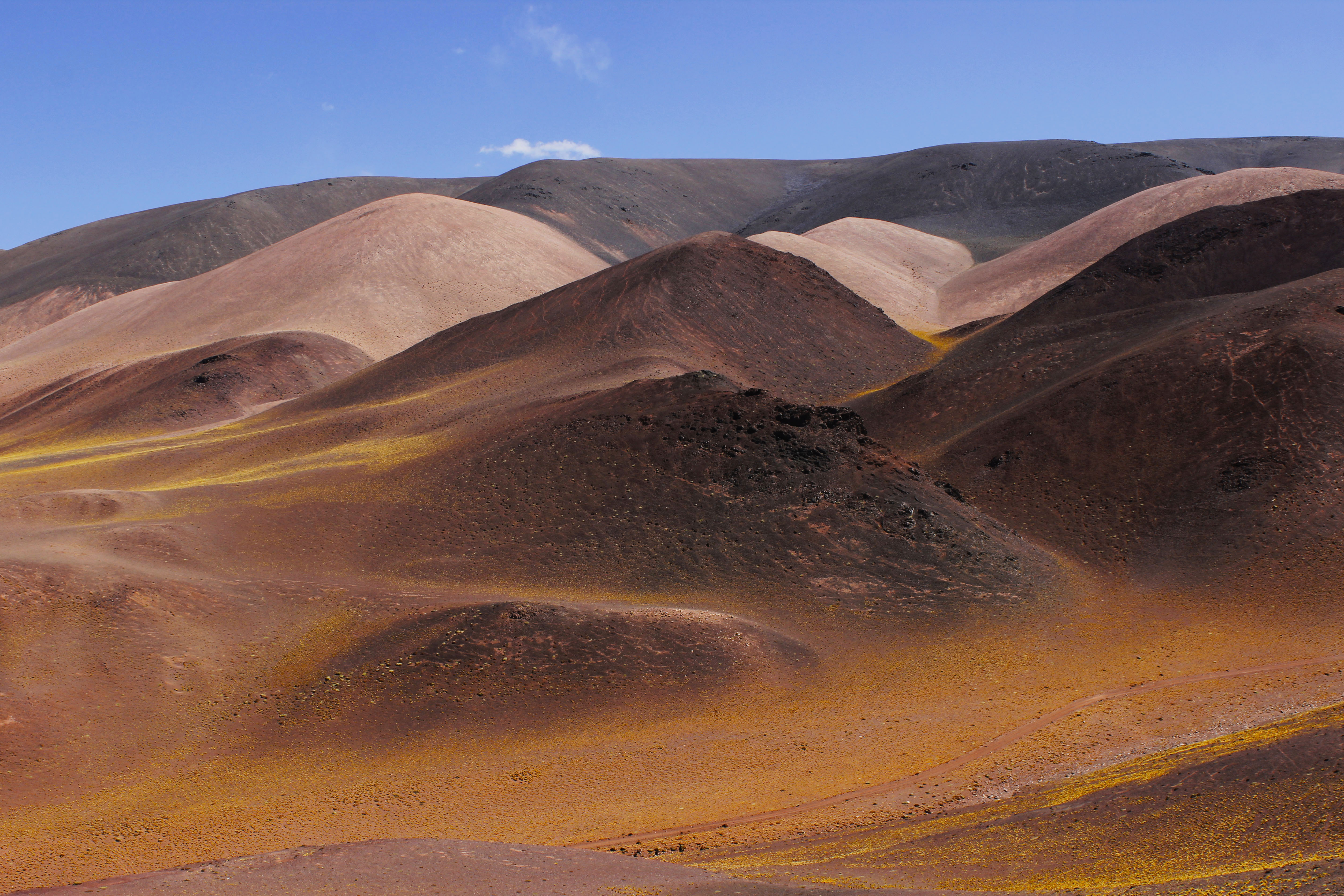 Reserva Laguna Brava, La Rioja, Argentina